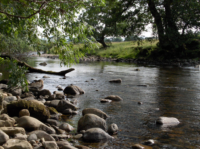 River Caldew. Looking upstream from the east bank near Bog Bridge.